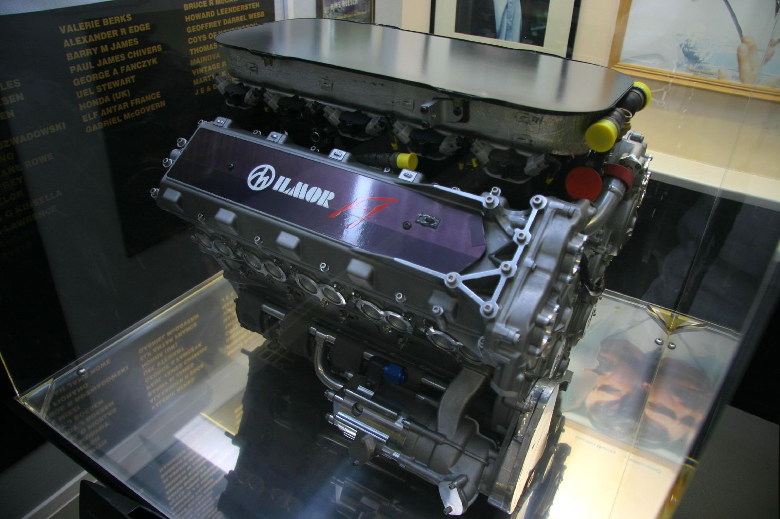 Grand Prix Collection